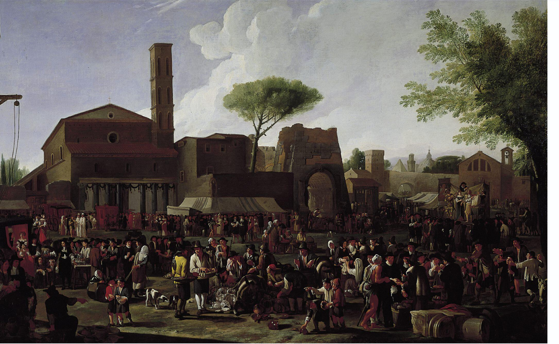 Willem Reuter, A Roman Market, Oil on canvas, 118.7 x 193.0 cm, 1669, Norton Simon Art Foundation